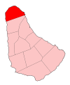 Map of Barbados showing Saint Lucy parish.